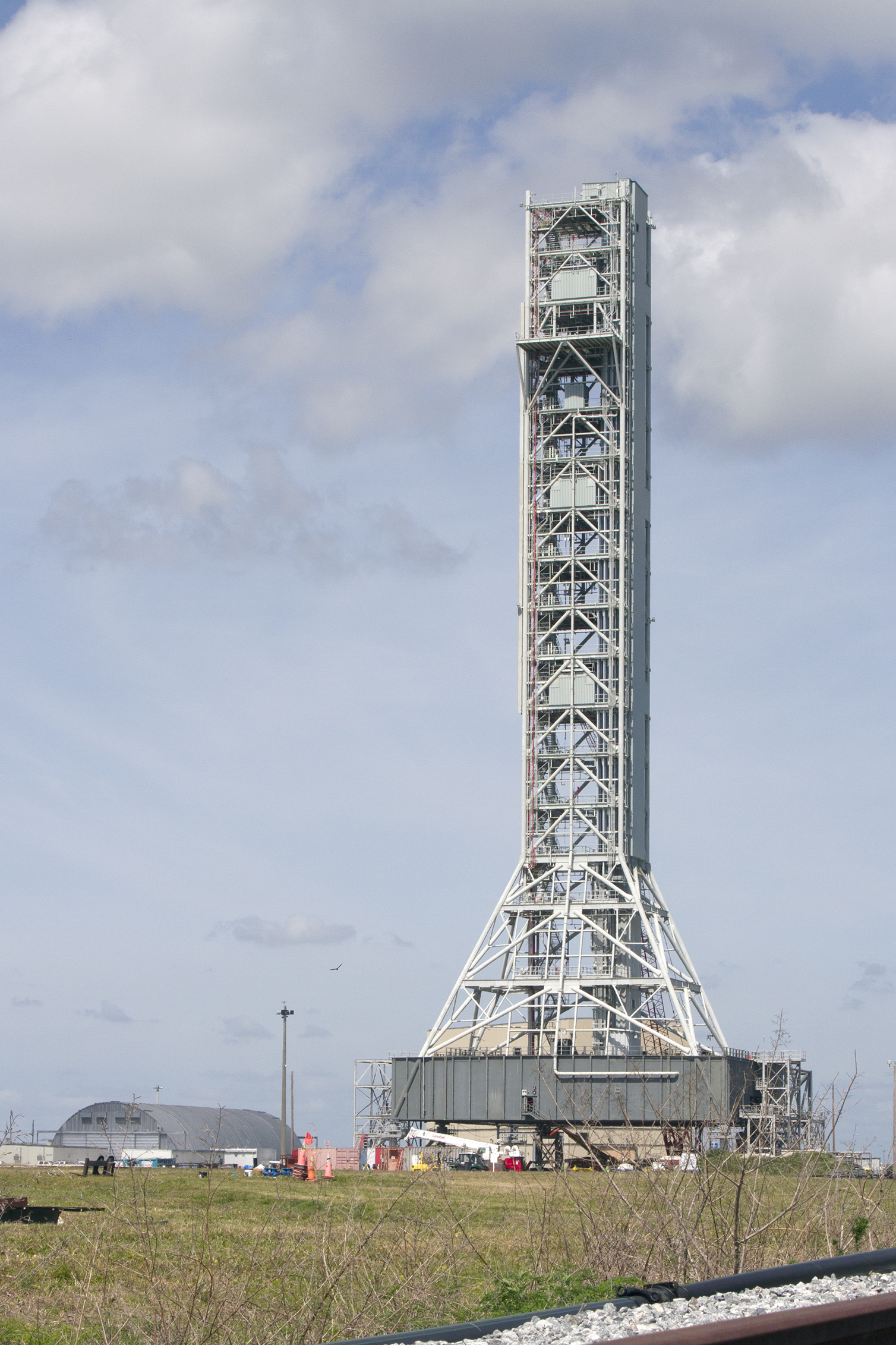 Modifications continue on the Mobile Launcher, or ML, at the Mobile Launcher Park Site at NASA’s Kennedy Space Center in Florida. In 2013, the agency awarded a contract to J.P. Donovan Construction Inc. of Rockledge, Fla., to modify the ML, which is one of the key elements of ground support equipment that is being upgraded by the Ground Systems Development and Operations Program office at Kennedy. The ML will carry the SLS rocket and Orion spacecraft to Launch Pad 39B for its first mission, Exploration Mission 1, in 2017.